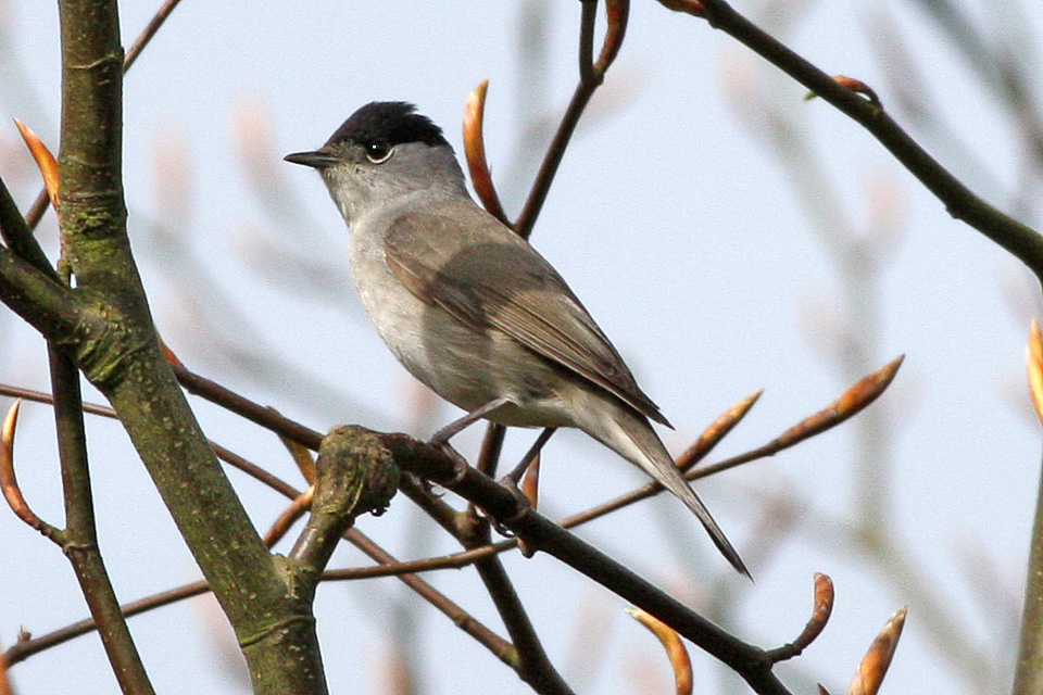 A male Eurasian Blackcap in Lullington Heath, East Sussex, England.